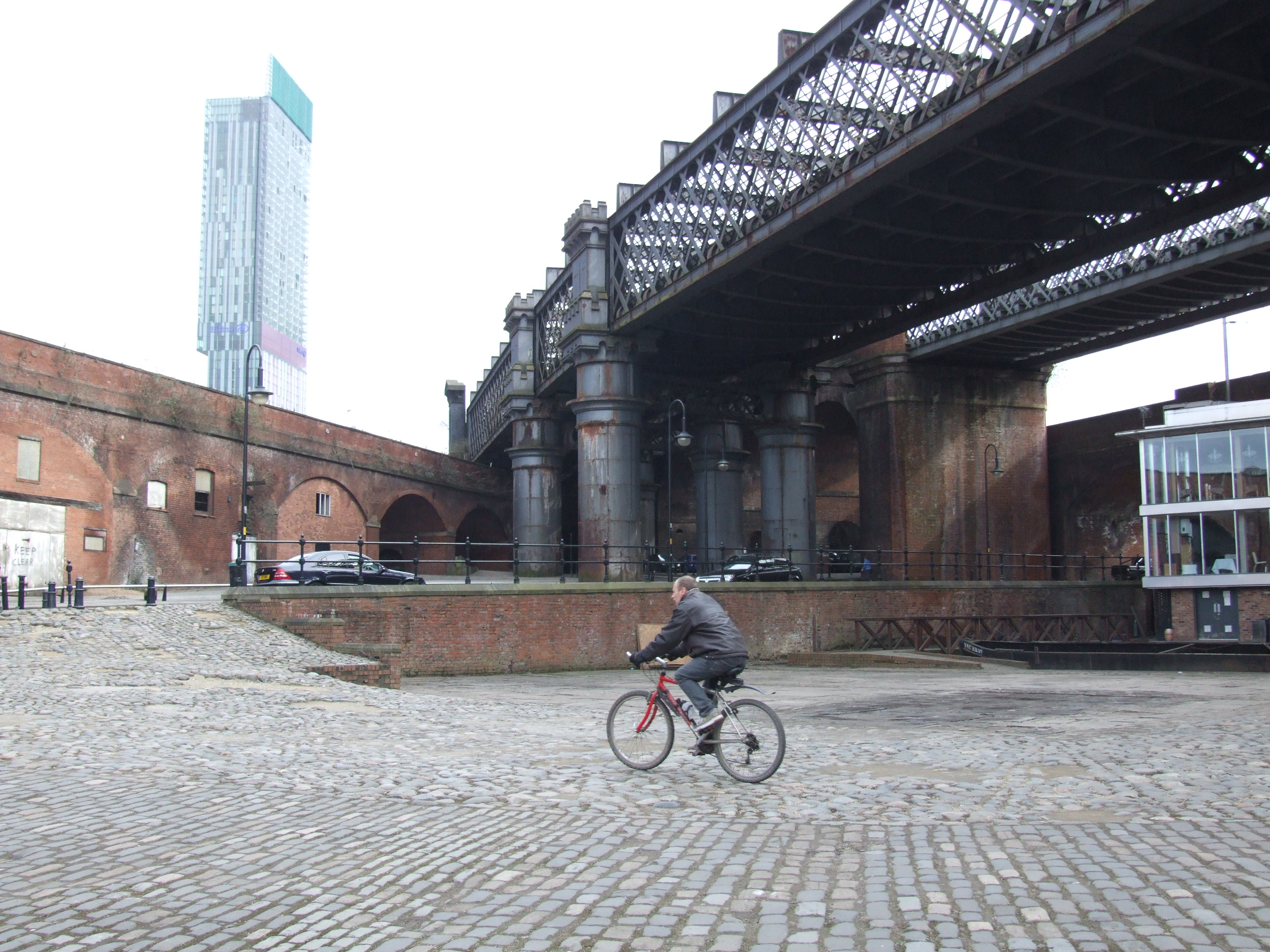 The Bridgewater Canal was commissioned by Francis Egerton, 3rd Duke of Bridgewater, to transport coal from his mines in Worsley to Manchester. Castlefield was the Manchester basin, and it was watered by the River Medlock. In 1802 the Rochdale Canal joined here at Dukes Lock. In the 1830s, the railways arrived at Liverpool Road railway station, and then in 1848, 1877 and 1894 Castlefield was dissected by the great railway viaducts. Under the viaduct showing the massive piers of the 1894 disused Great Northern Viaduct. To the left are the brick arches of the Salford branch 1848 viaduct of the Manchester South Junction & Altrincham railway. This was the site of the Kenworthy Warehouse. To the right under the Corn brook viaduct is Barca. The Beetham tower in the distance.